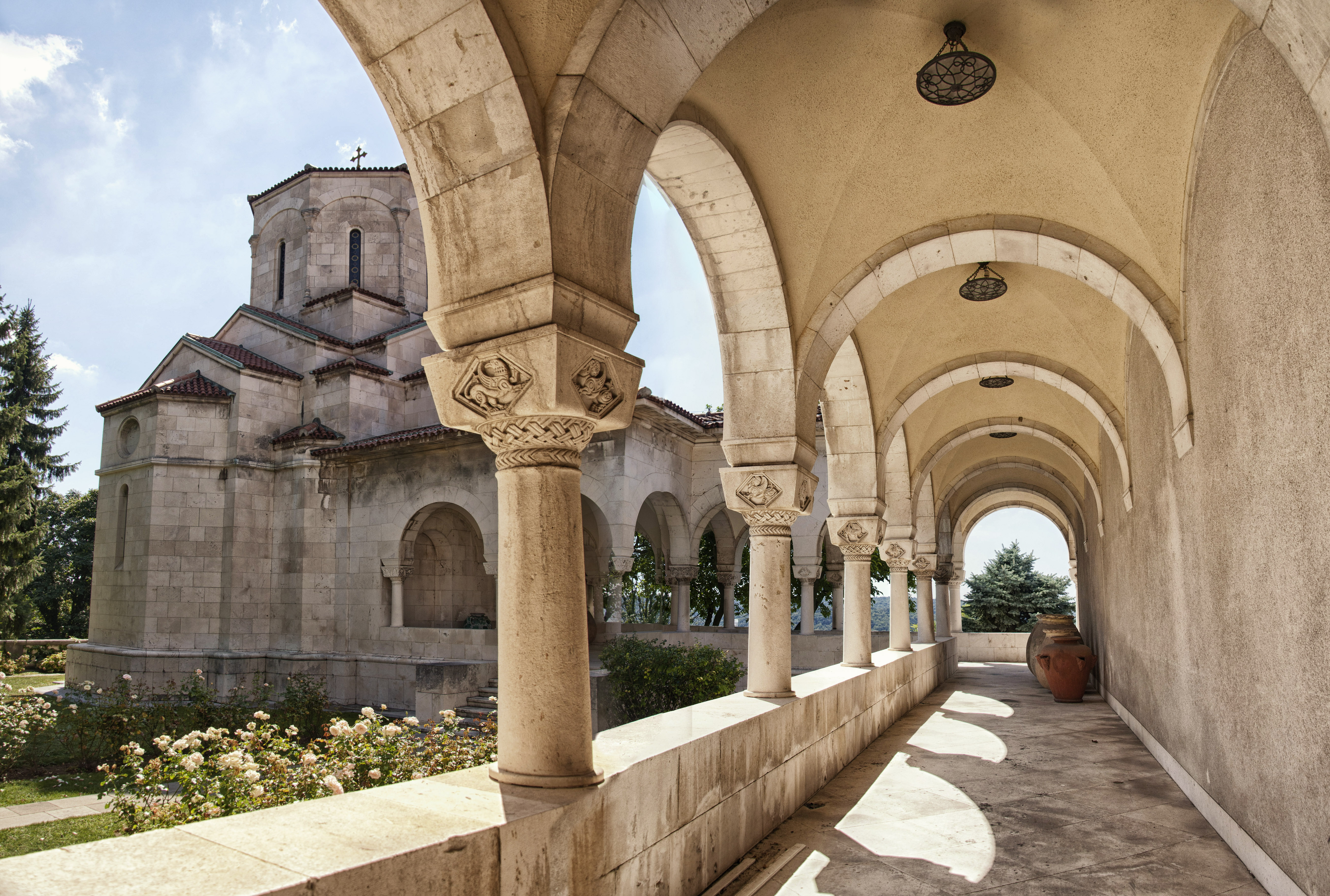 СК, Royal Chapel dedicated to Saint Apostle Andrew The First-Called, Belgrade